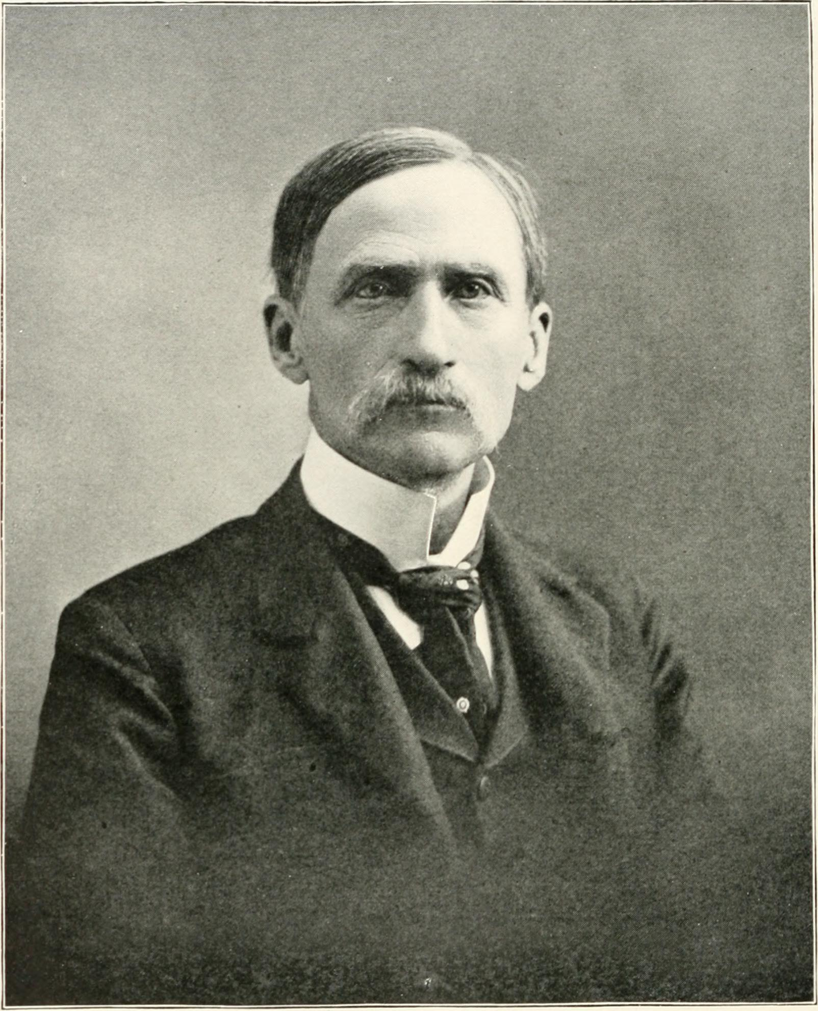 Title: A record of the dedication of the statue of Major General William Francis Bartlett Year: 1905 (1900s) Authors: Massachusetts. Executive Dept Subjects: Bartlett, William Francis, 1840-1876 Publisher: Boston, Printed by order of the governor and Council, Wright and Potter printing company, state printers Text Appearing Before Image: 48 ORATION brigadier General morris Schaff Text Appearing After Image: BRIGADIER GENERAL MORRIS SCHAFF, ORATOR